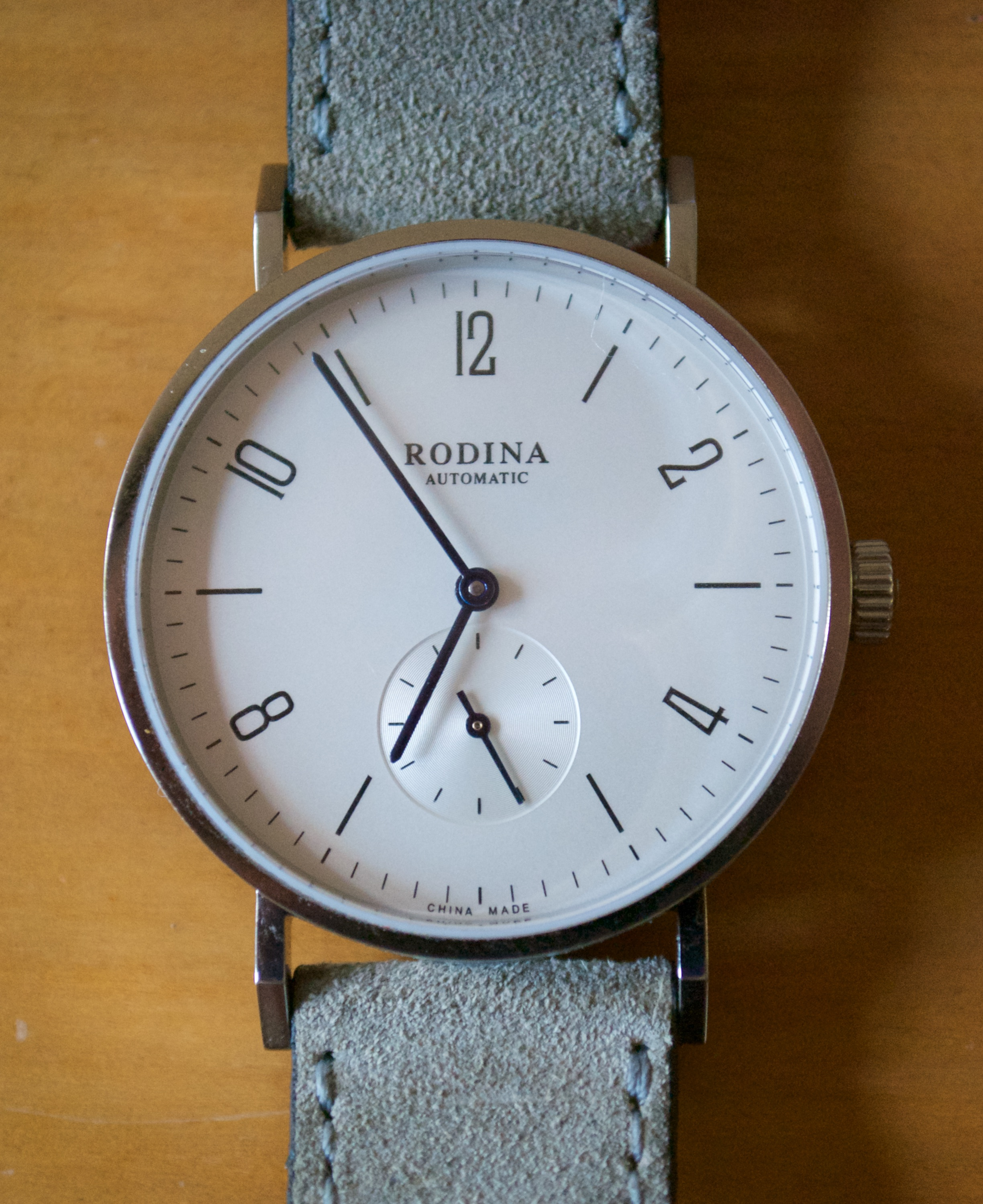 Photograph of a Rodina R005 wristwatch with an ST1701 movement.